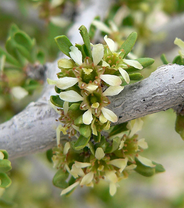 Prunus fasciculata in Calico Basin, west of Las Vegas, Nevada